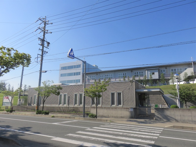 FDK ENERGY, a plant of FDK CORPORATION